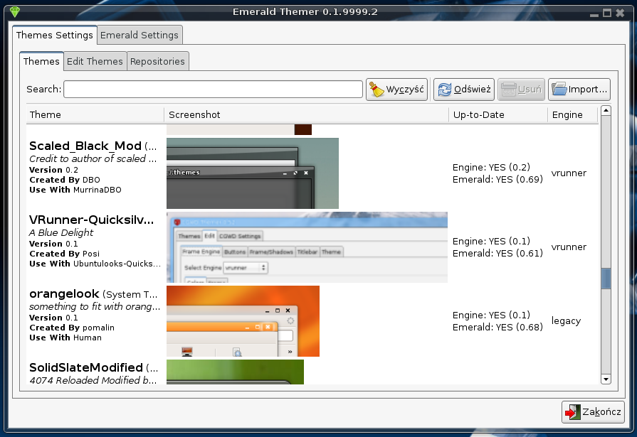 Emerald Theme Manager Screenshot. Screenshot made on my home dektop (Linux, Ubuntu 6.10, AIGLX, Beryl).